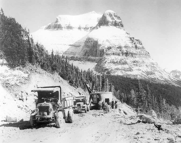 Going-to-the-Sun Road in Glacier National Park (US), under construction in 1932